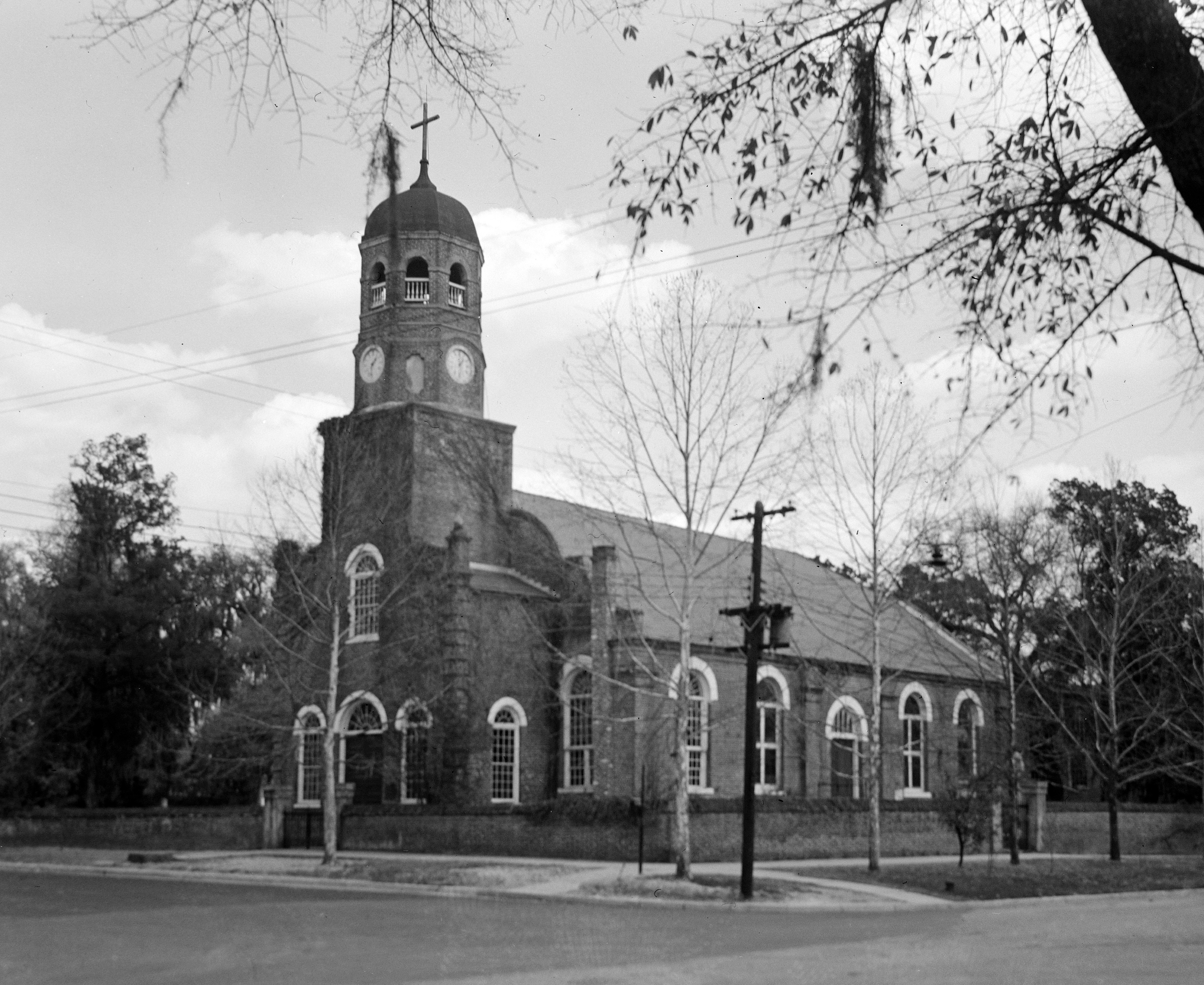 Church of Prince George Winyah, Broad & Highmarket Streets, Georgetown, Georgetown County, SC 149900 - cropped HABS:HABS SC,22-GEOTO,1-4)) This file comes from the Historic American Buildings Survey (HABS), Historic American Engineering Record (HAER) or Historic American Landscapes Survey (HALS). These are programs of the National Park Service established for the purpose of documenting historic places. Records consist of measured drawings, archival photographs, and written reports. This tag does not indicate the copyright status of the attached work. A normal copyright tag is still required. See Commons:Licensing for more information. English | +/− This work is in the public domain in the United States because it is a work prepared by an officer or employee of the United States Government as part of that person’s official duties under the terms of Title 17, Chapter 1, Section 105 of the US Code. See Copyright. Note: This only applies to original works of the Federal Government and not to the work of any individual U.S. state, territory, commonwealth, county, municipality, or any other subdivision. This template also does not apply to postage stamp designs published by the United States Postal Service since 1978. (See § 313.6(C)(1) of Compendium of U.S. Copyright Office Practices). It also does not apply to certain US coins; see The US Mint Terms of Use. This file has been identified as being free of known restrictions under copyright law, including all related and neighboring rights. Object location33° 22′ 08″ N, 79° 16′ 49″ W